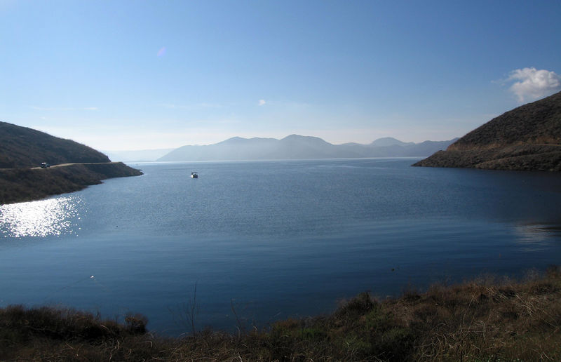 Diamond Valley Lake — an off-stream reservoir located southwest of Hemet in Riverside County, California. Set in low hills of the northwestern Peninsular Ranges. Photo taken 20 Feb 2006 by Takwish with a Canon PowerShot S70.